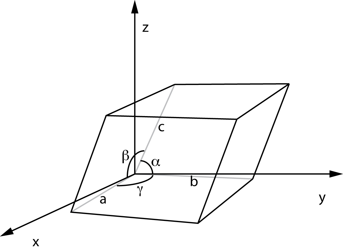 Image of a crystal unit cell definition. a, b, and c are unit cell lengths. alpha is the angle between b anc c, beta is the angle between a and c, and gamma is the angle between a and b.